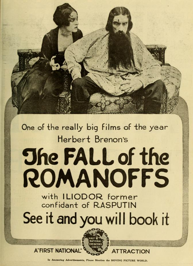 Advertisement in Moving Picture World, May 1918 for the film The Fall of the Romanoffs (1917) with Edward Connelly and Ketty Galanta.